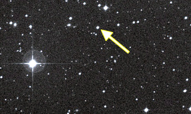 OldestStar-SM0313-SMSSJ031300366708393-20140210 SMSS J031300.36-670839.3 03h13m00.36s −67d08m39.3s Space Telescope Science Institute Oldest star found (as of February 10, 2014) - the star was discovered with the Sky Mapper Telescope at Siding Spring Observatory in Australia.